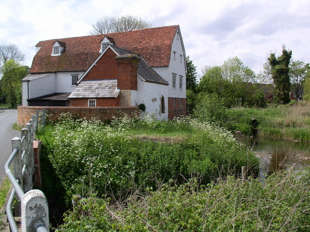 Alderford Mill, Sible Hedingham An 18th Century water mill, on the River Colne. Being renovated by the owner, Essex County Council.